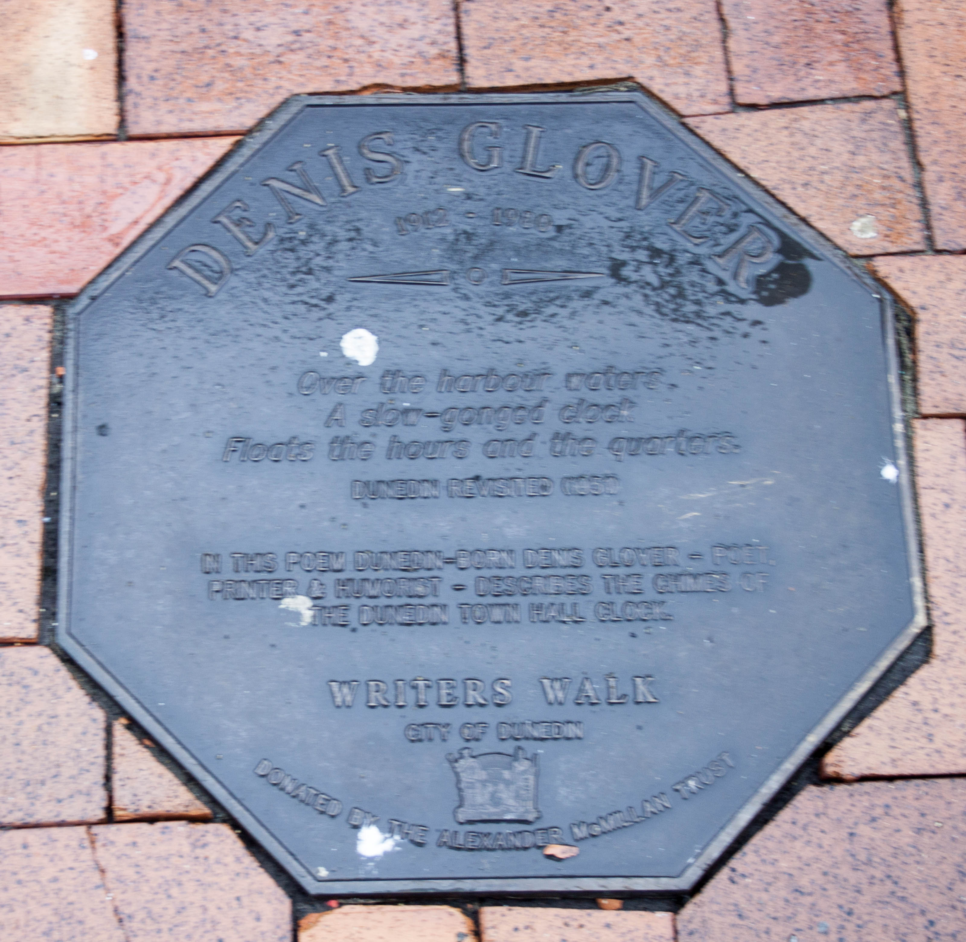 Plaque dedicated to Denis Clover in Dunedin, on the Writers' Walk on the Octagon